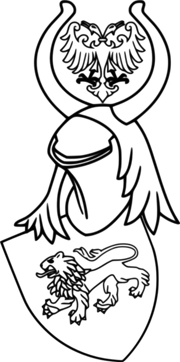 Coat of Arms of Serbian Despot Djuradj BrankovicСрпски (ћирилица): Грб српског деспота Ђурђа Бранковића